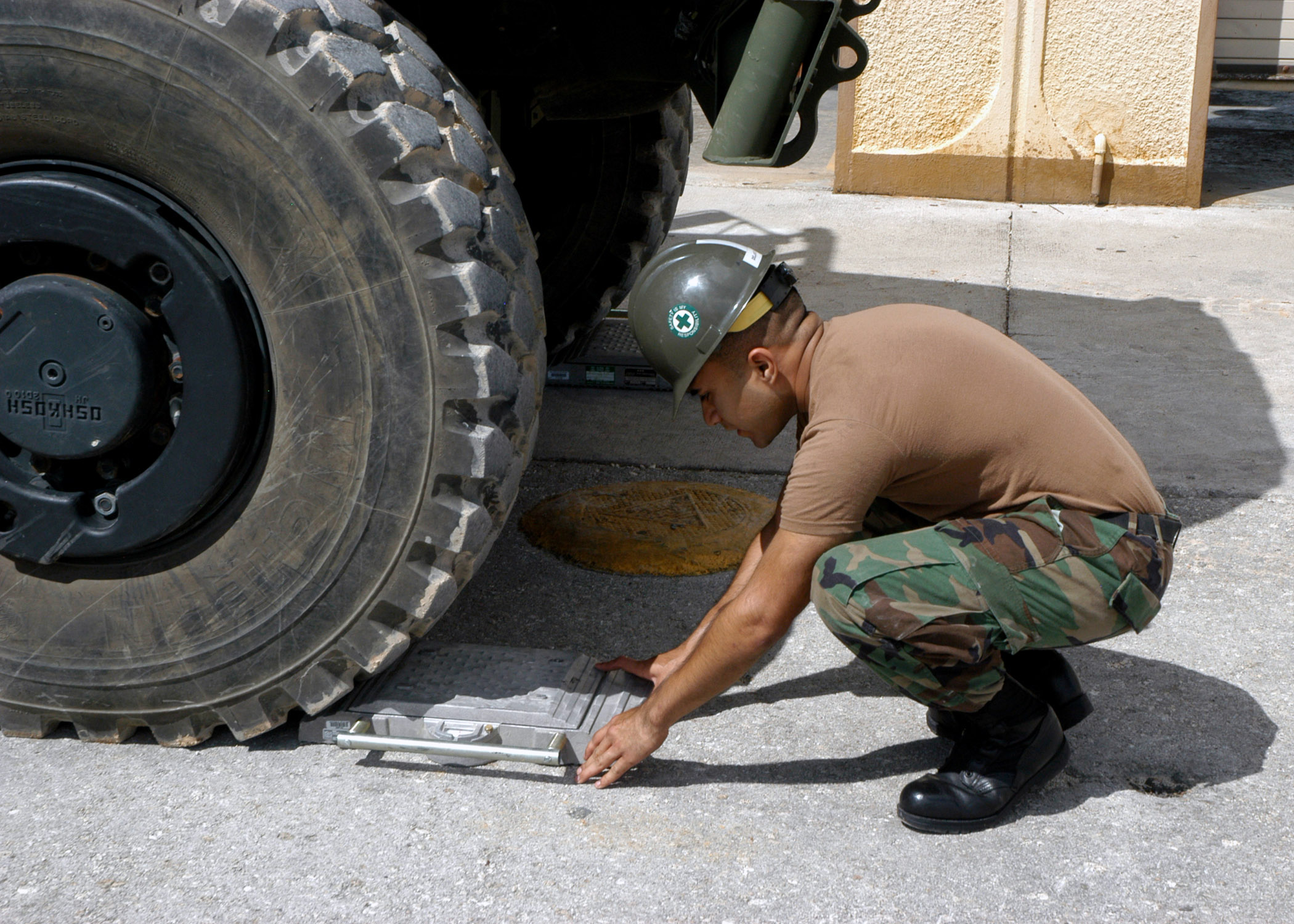 COVINGTON, Guam (July 25, 2007) - Construction Mechanic Constructionman Recruit Oscar C. Delarosa positions scales to obtain the axel weight of a High Mobility Multipurpose Wheeled Vehicle during a Fish Hook exercise. Naval Mobile Construction Battalion (NMCB) 4 is deployed to Guam supporting construction requirements for Pacific Command. U.S. Air Force photo by Master Sgt. Rickie D. Bickle (RELEASED)